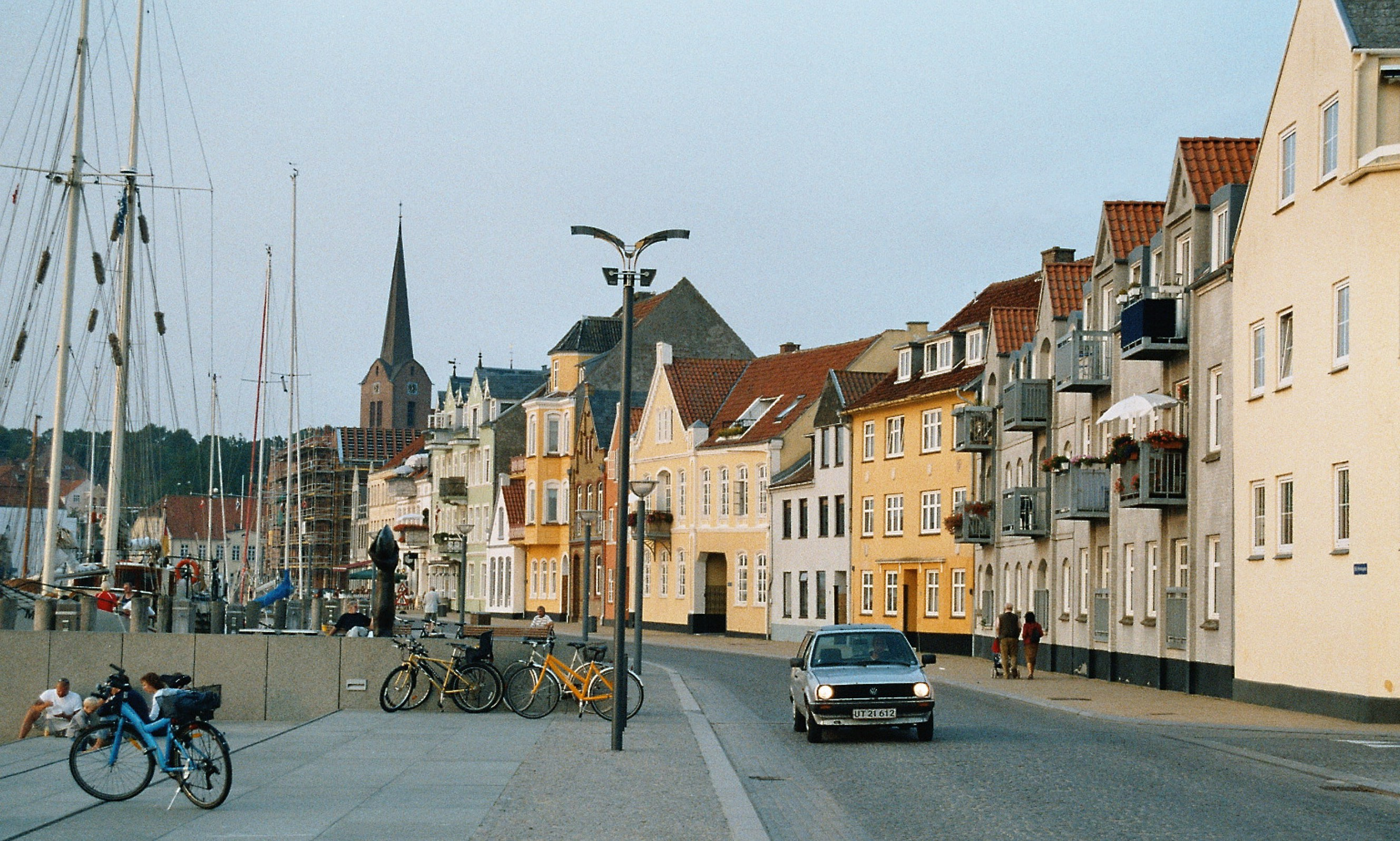 Sønderborg, the street "Sønder Havnegade"